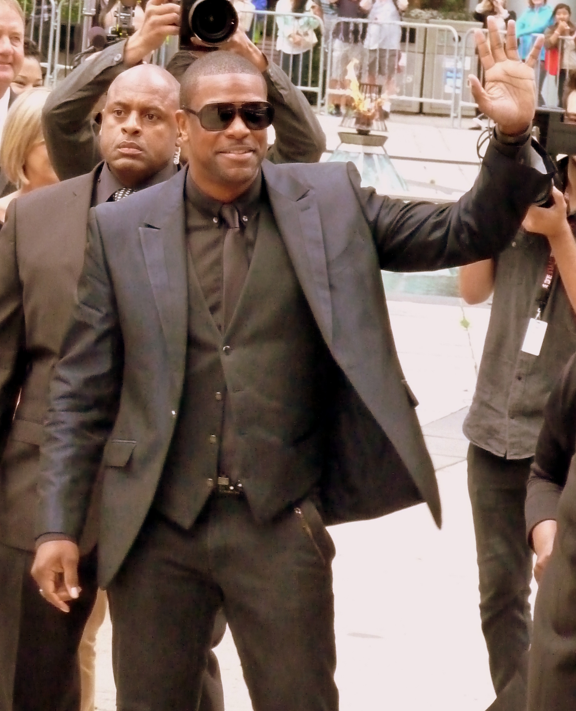 Chris Tucker at the premiere of Silver Linings Playbook, In Toronto Film Festival 2012.